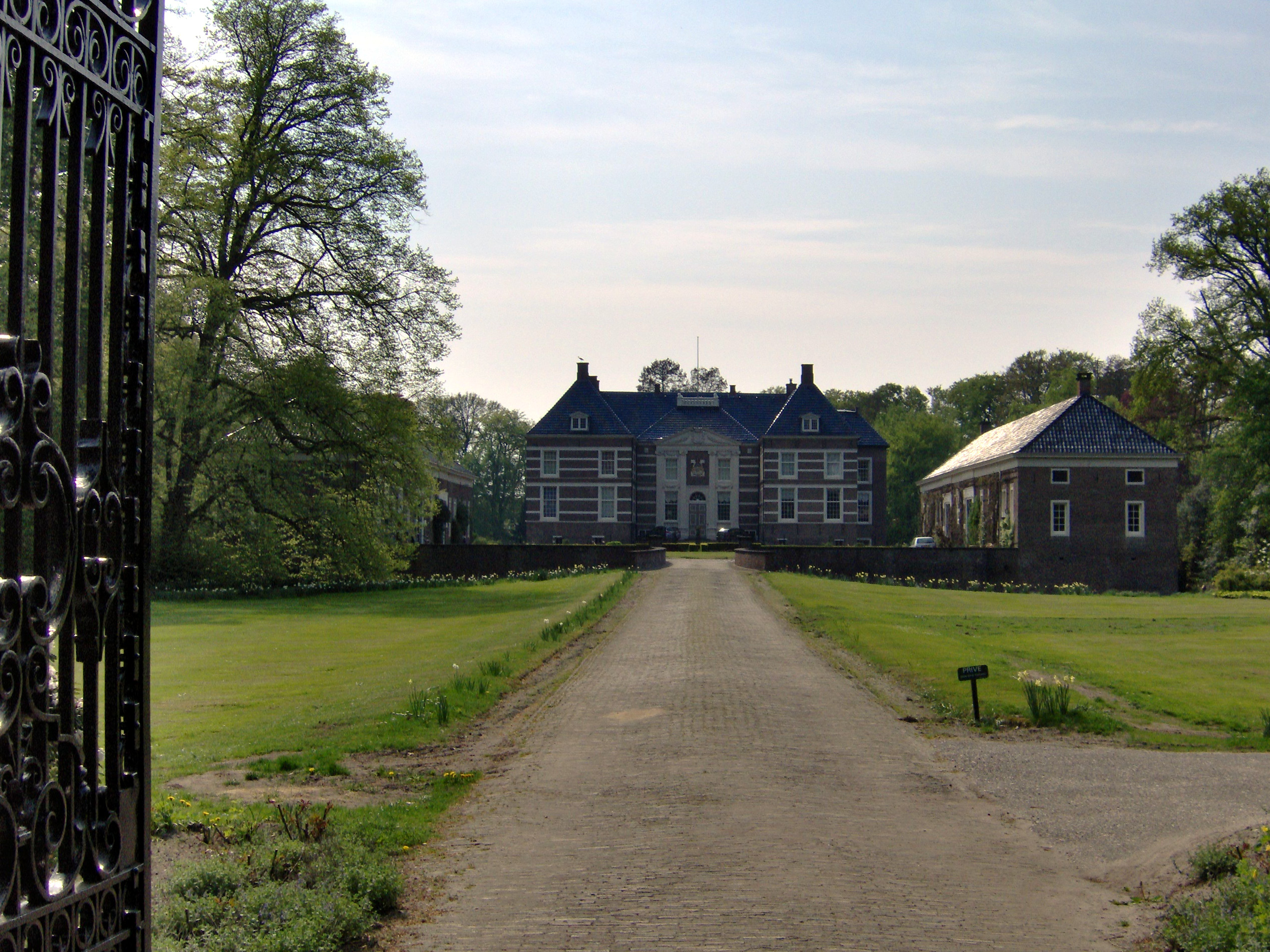 Huize Almelo, castle in Almelo, in the province of Overijssel in the Netherlands